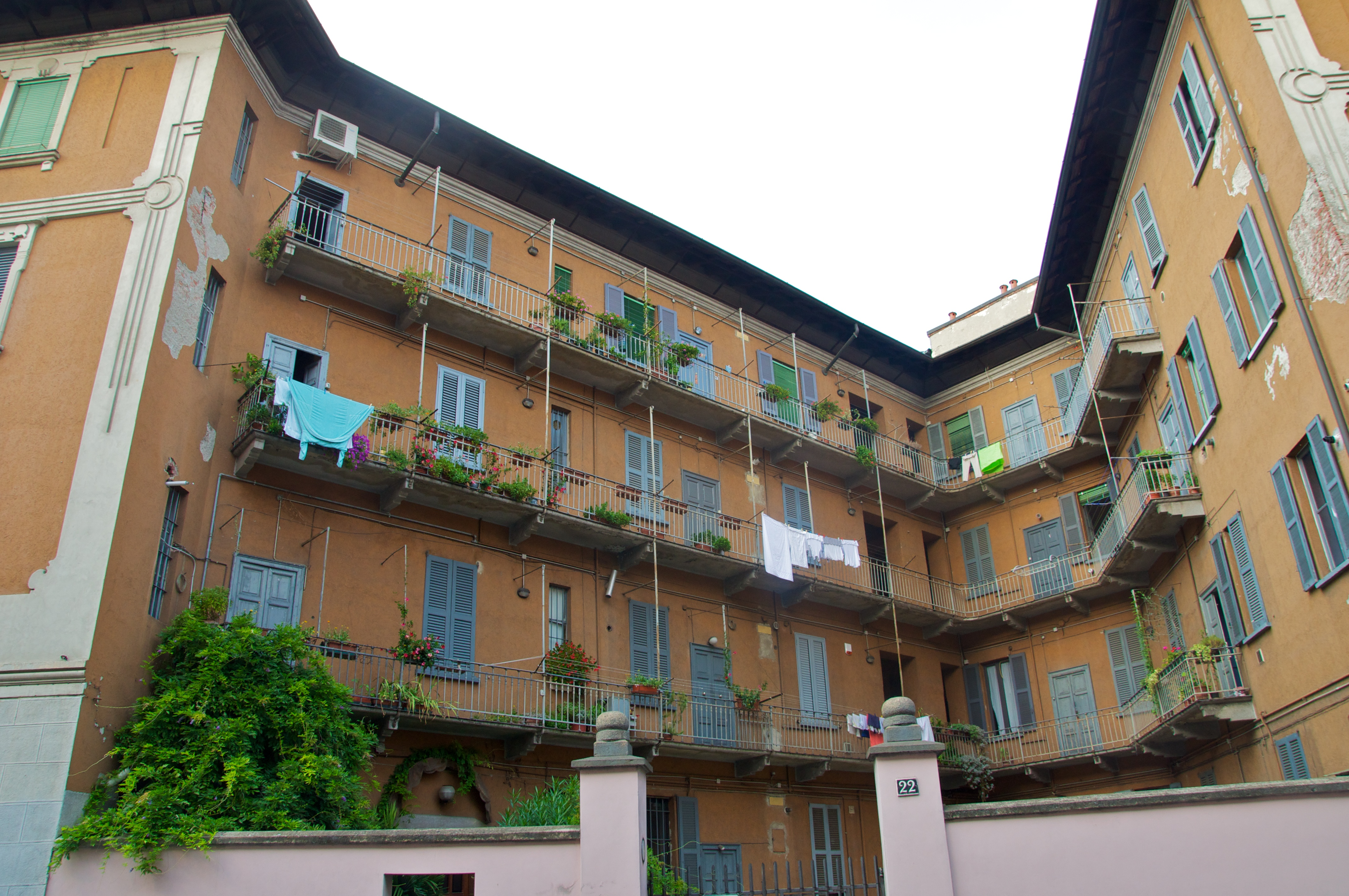 Bovisa, Milano